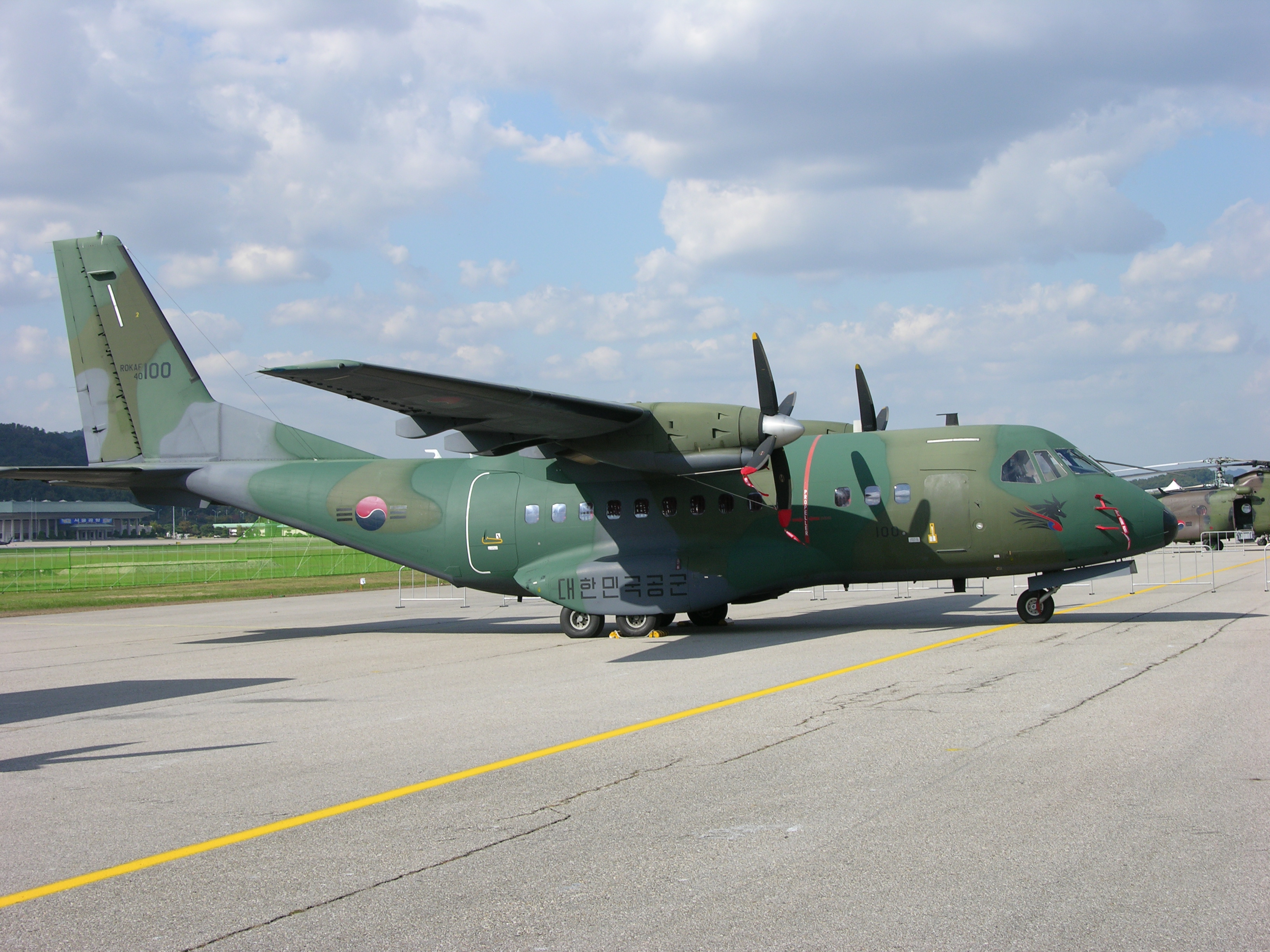 40-100 CN235-100M 258 TATS RoKAF. I expect that these are built in Indonesia rather than Seville in Spain but I'm not 100 per cent sure.